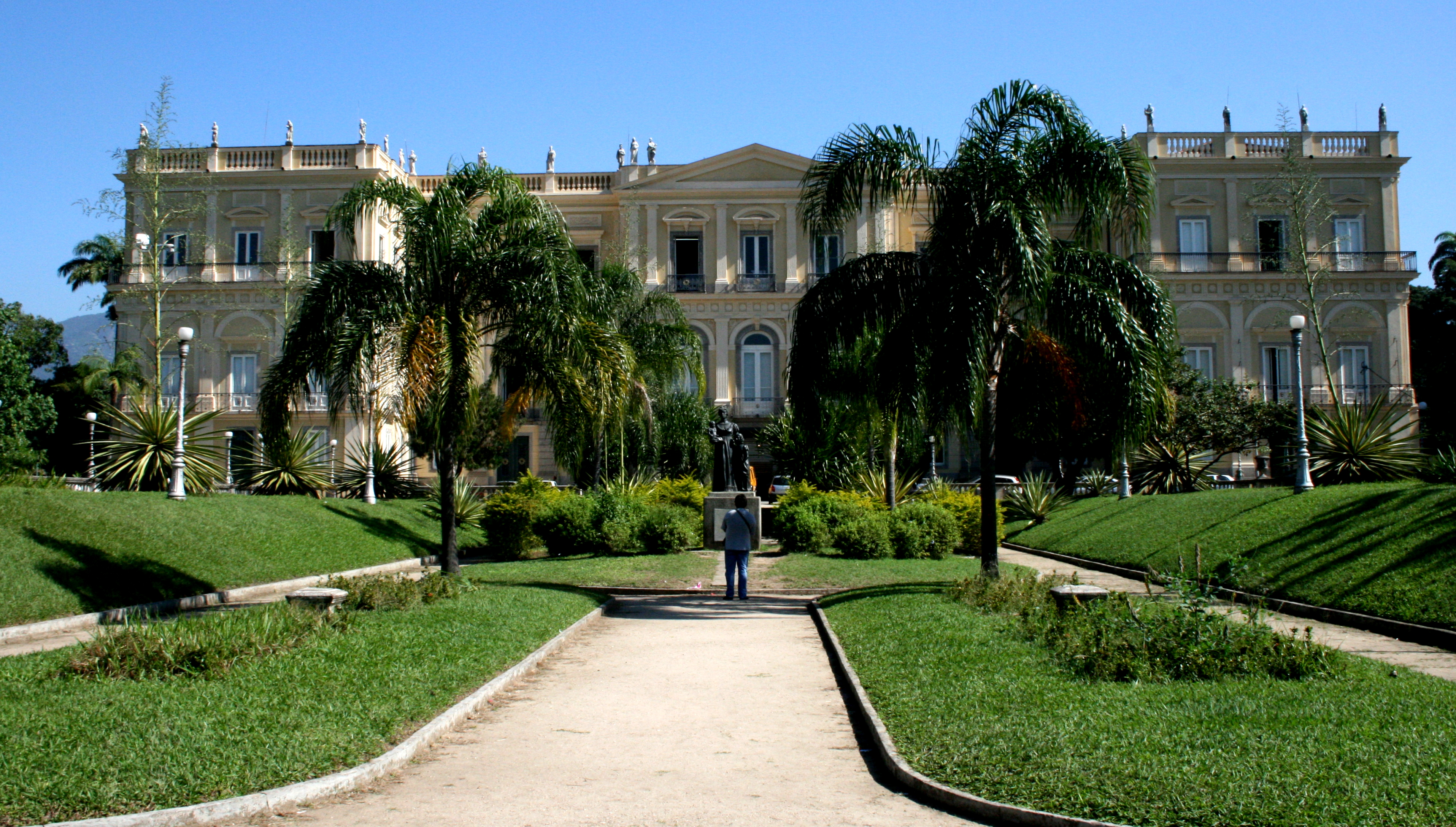 National Museum of Brazil, located in the São Cristóvão Palace (former Imperial Palace), Quinta da Boa Vista, Rio de Janeiro.